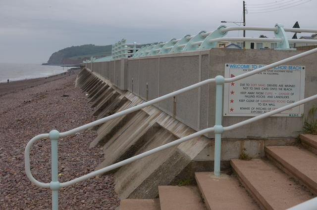 Seafront at Blue Anchor, Somerset. Looking East from the Western end of the Seafront, near the station.